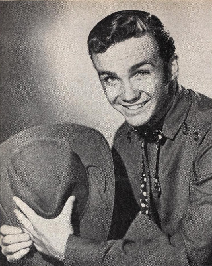 Ben Cooper 1954